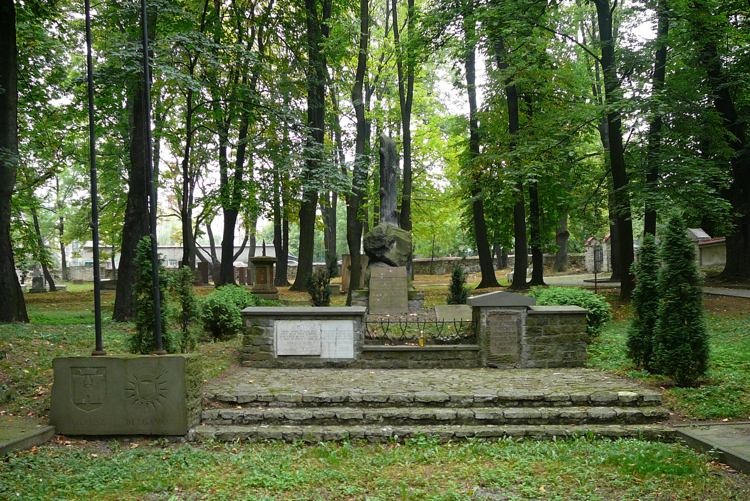 Grave of Francesco Nullo – Italian revolutionary from Bergamo who fought for Polish independence in January Uprising and died at Battle of Krzykawka on 5th May 1863. Old cemetery in Olkusz (Poland).